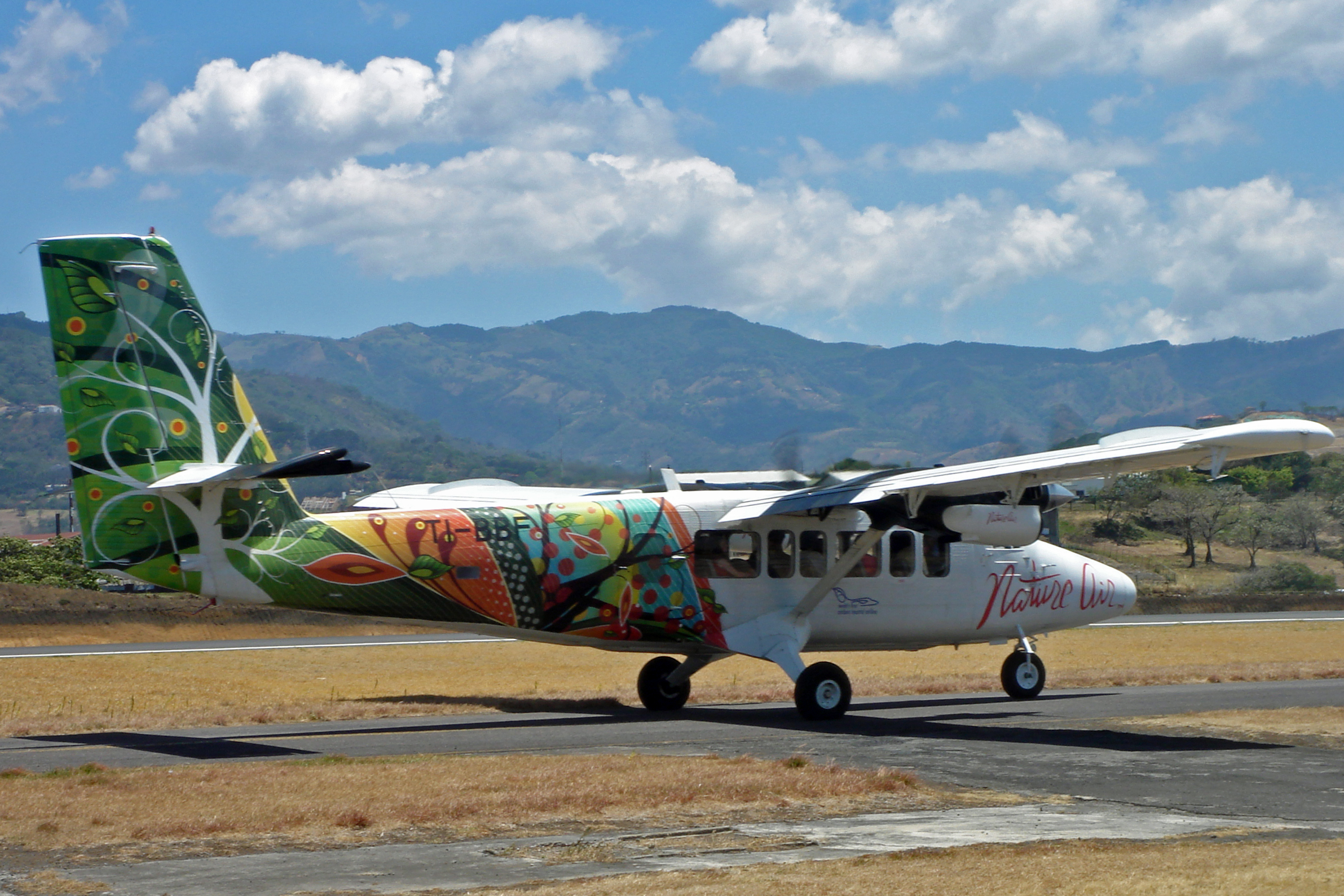 Costa Rican Nature Air Twin Otter (De Havilland) taxing before take off at the Tobias Bolaños International Airport